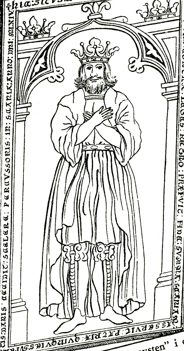 Drawing of the 16th century gravestone on the cenotaph of King Ingold the Elder of Sweden at Varnhem